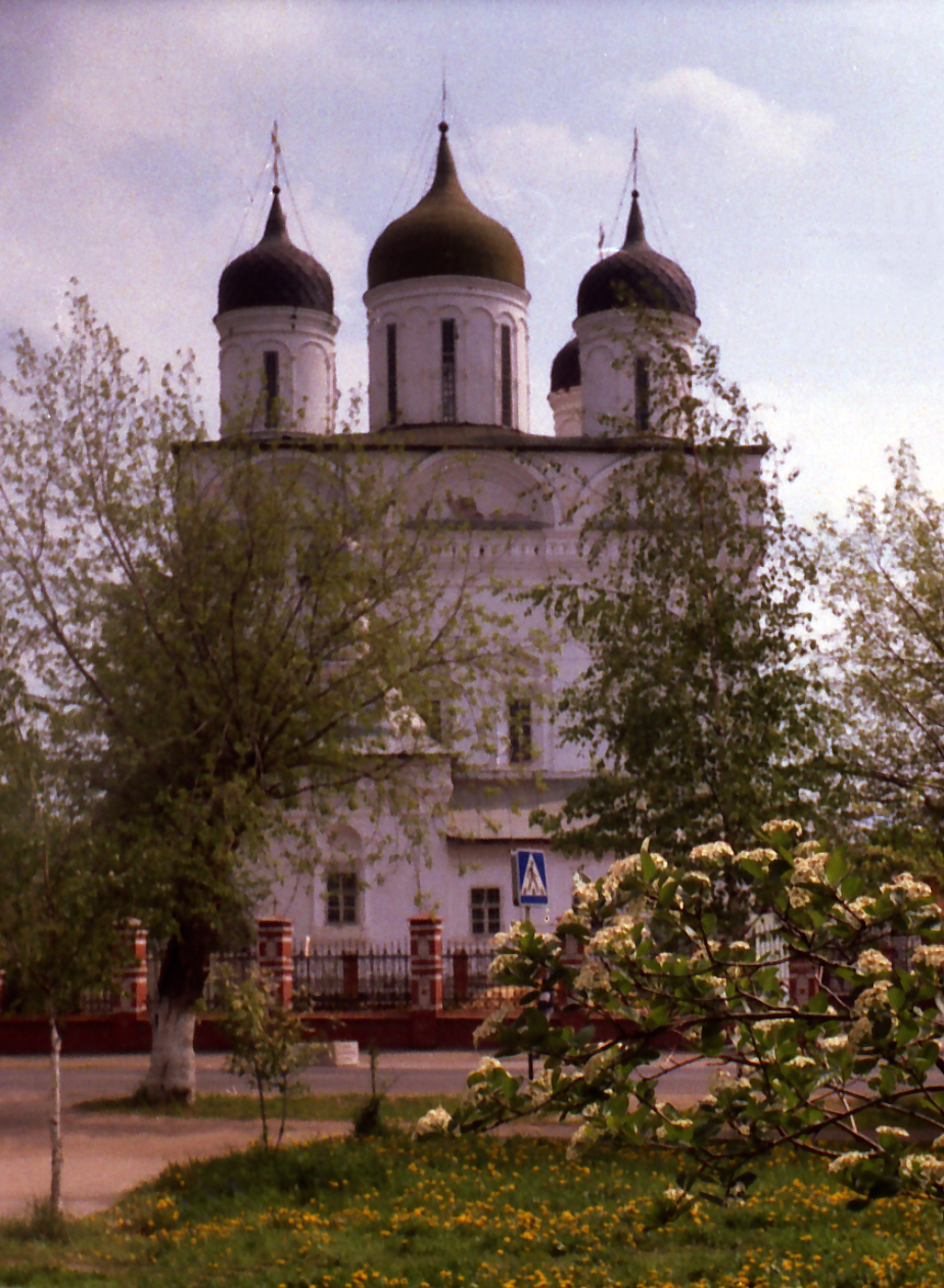 Balakhna, Church of the Nativity of Christ (1675).